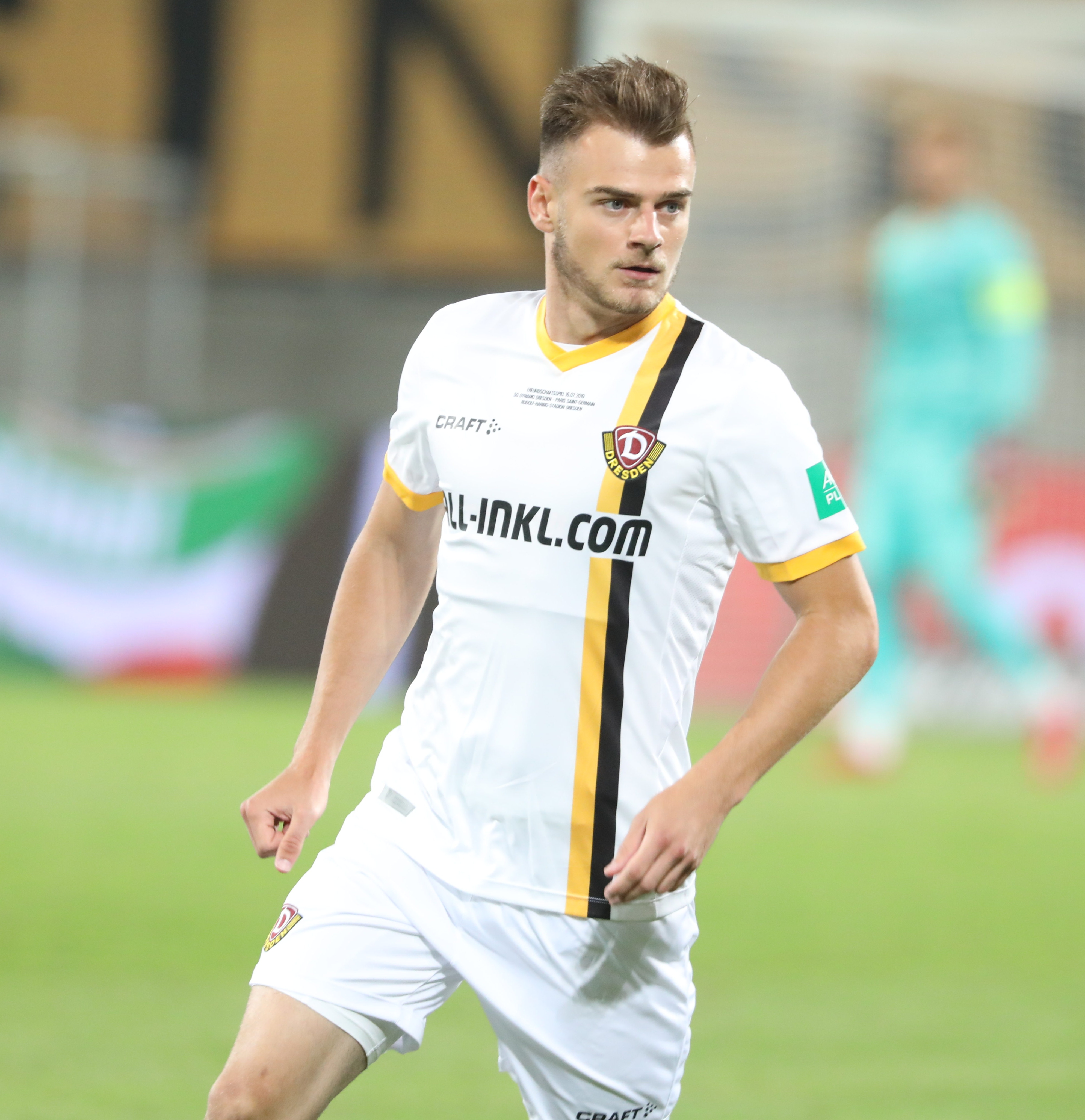 Test game, 17th July 2019: SG Dynamo Dresden vs. Paris Saint-Germain 1:6 (0:3)